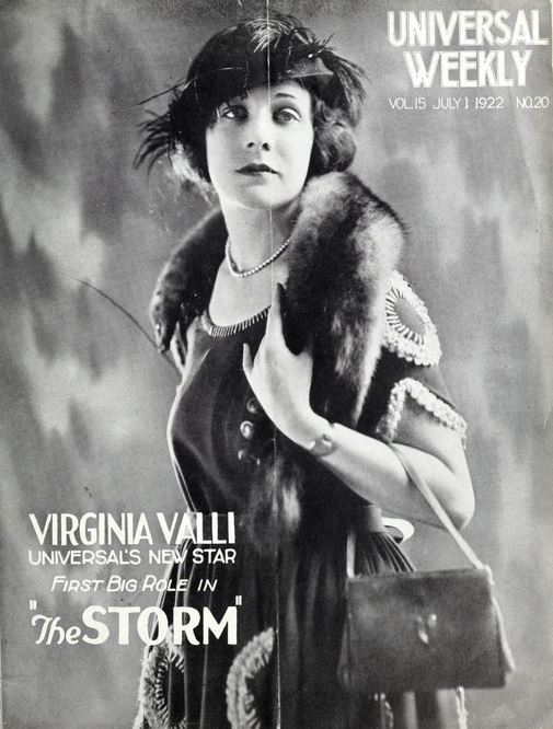 Still from the American film The Storm (1922) with Virginia Valli, on the cover of the July 1, 1922 Universal Weekly.